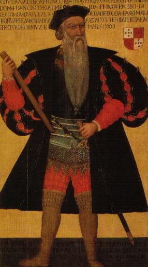 Portrait of Afonso de Albuquerque in Goa (India). Mixed technique on wood (182 x 108 cm). National Museum of Ancient Art, Lisbon, Portugal.